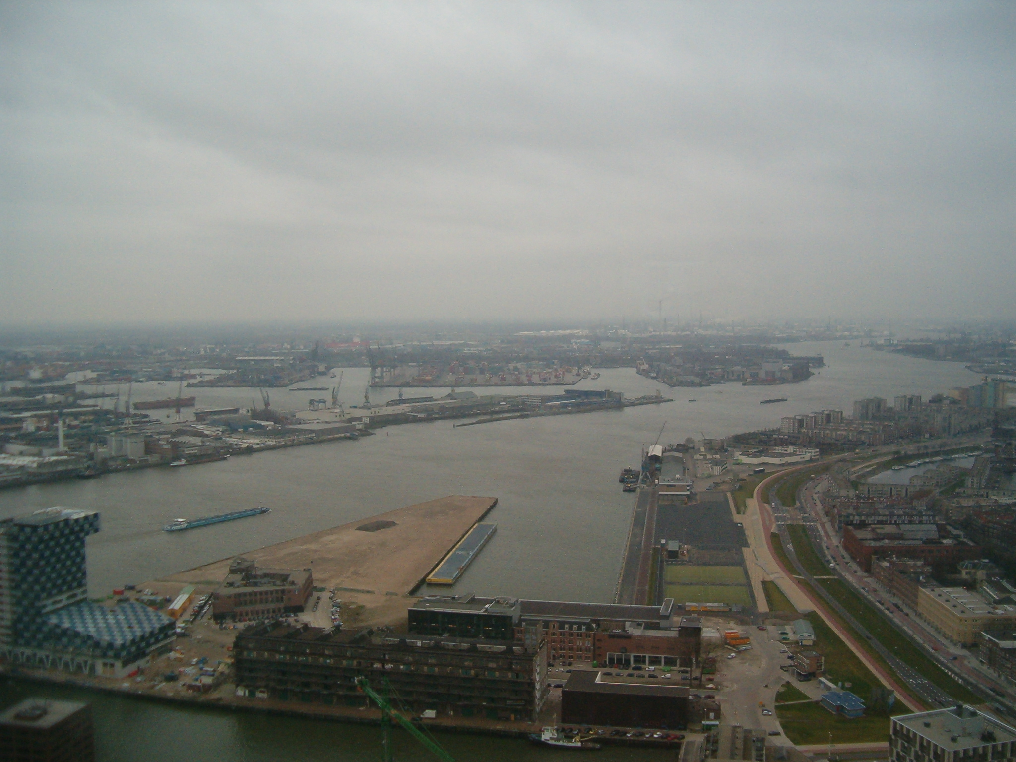 Panorama of Rotterdam, the Netherlands, from the Euromast, with the Meuse.